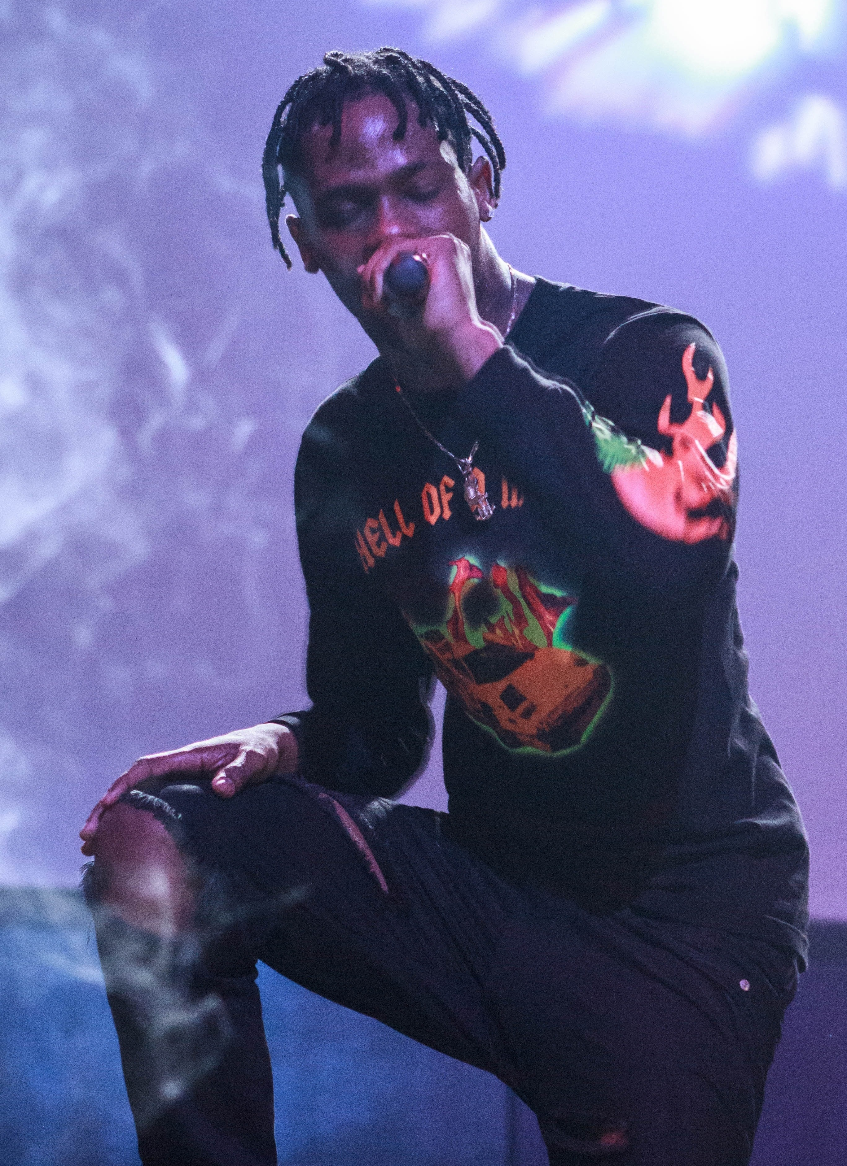 Travi$ Scott in 2014 February